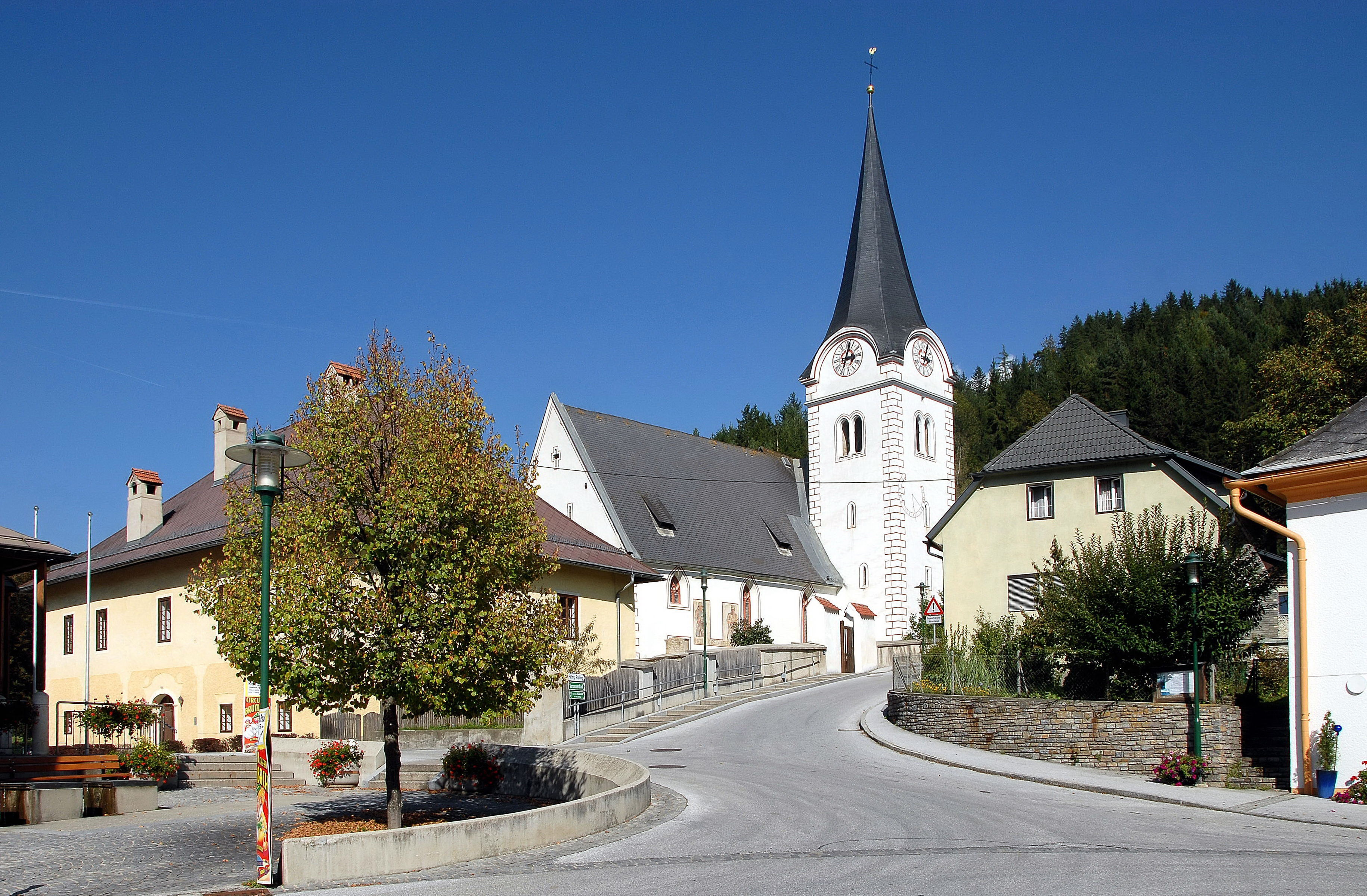 Parish church Saint Paul and main square, municipality Klein Sankt Paul, district Sankt Veit an der Glan, Carinthia / Austria / EU